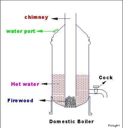 domestic boiler cross section drawing